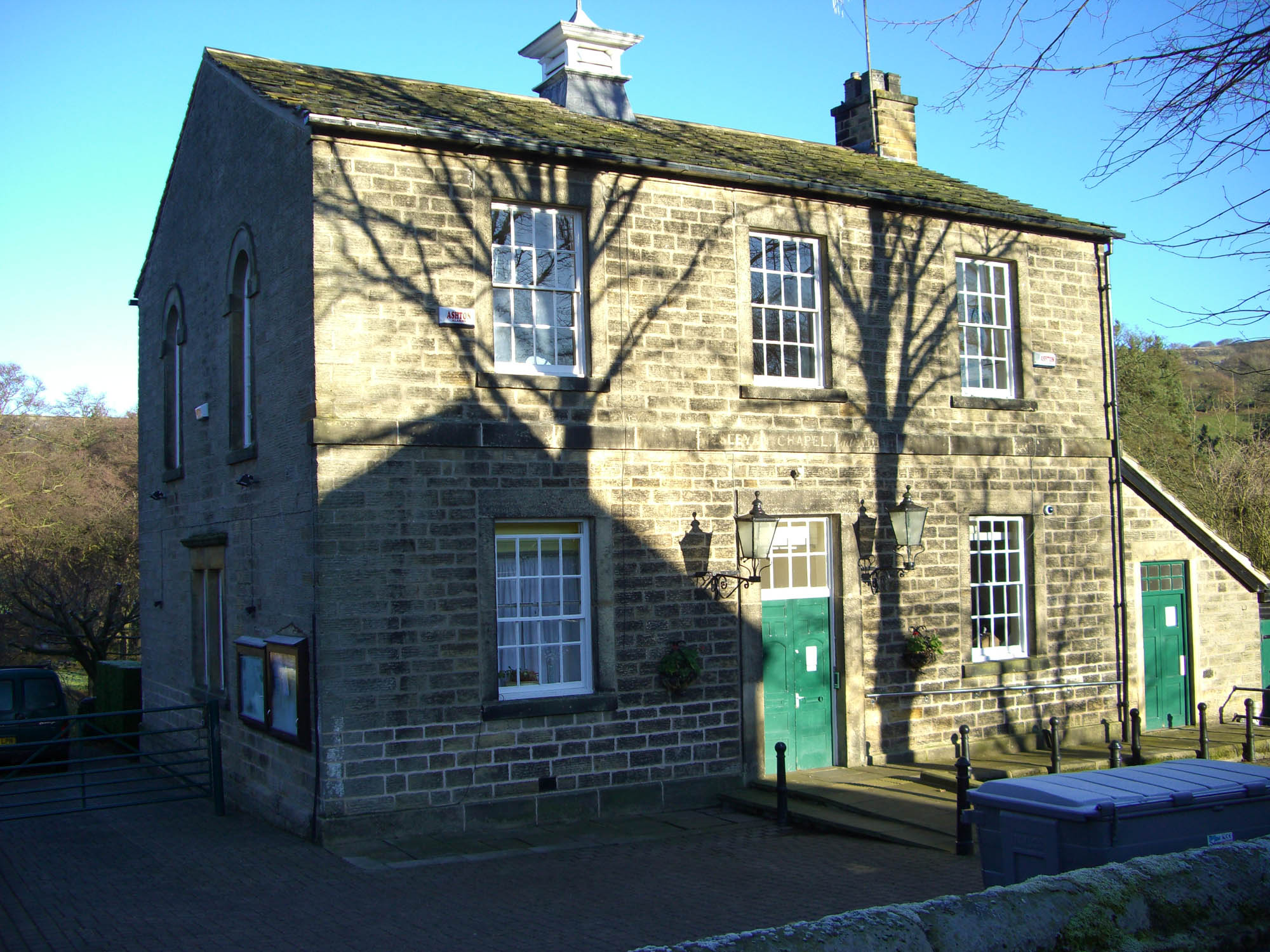 Old Wesleyan Chapel, Low Bradfield, Sheffield, South Yorkshire